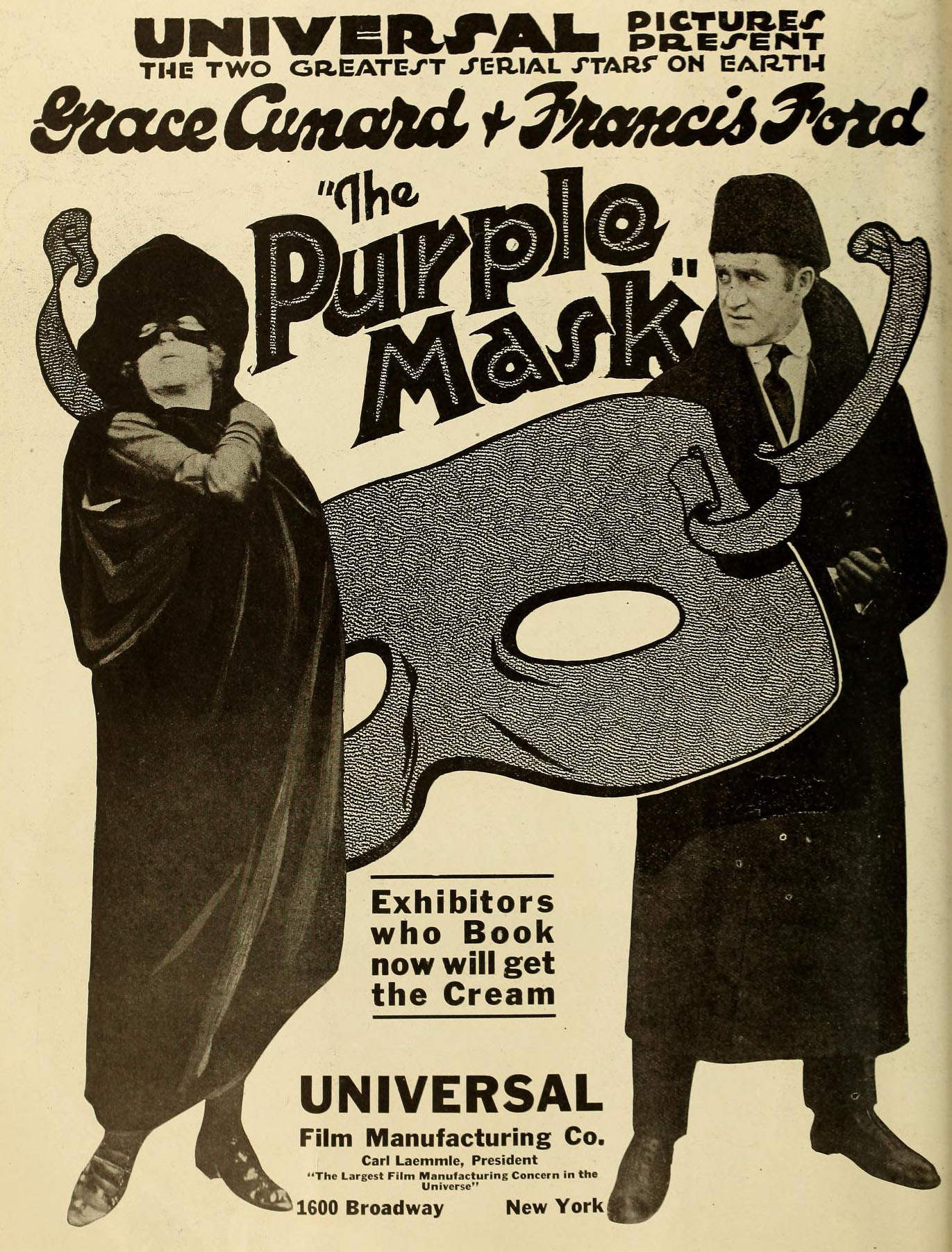 Advertisement in Moving Picture World for the American film serial The Purple Mask (1916).